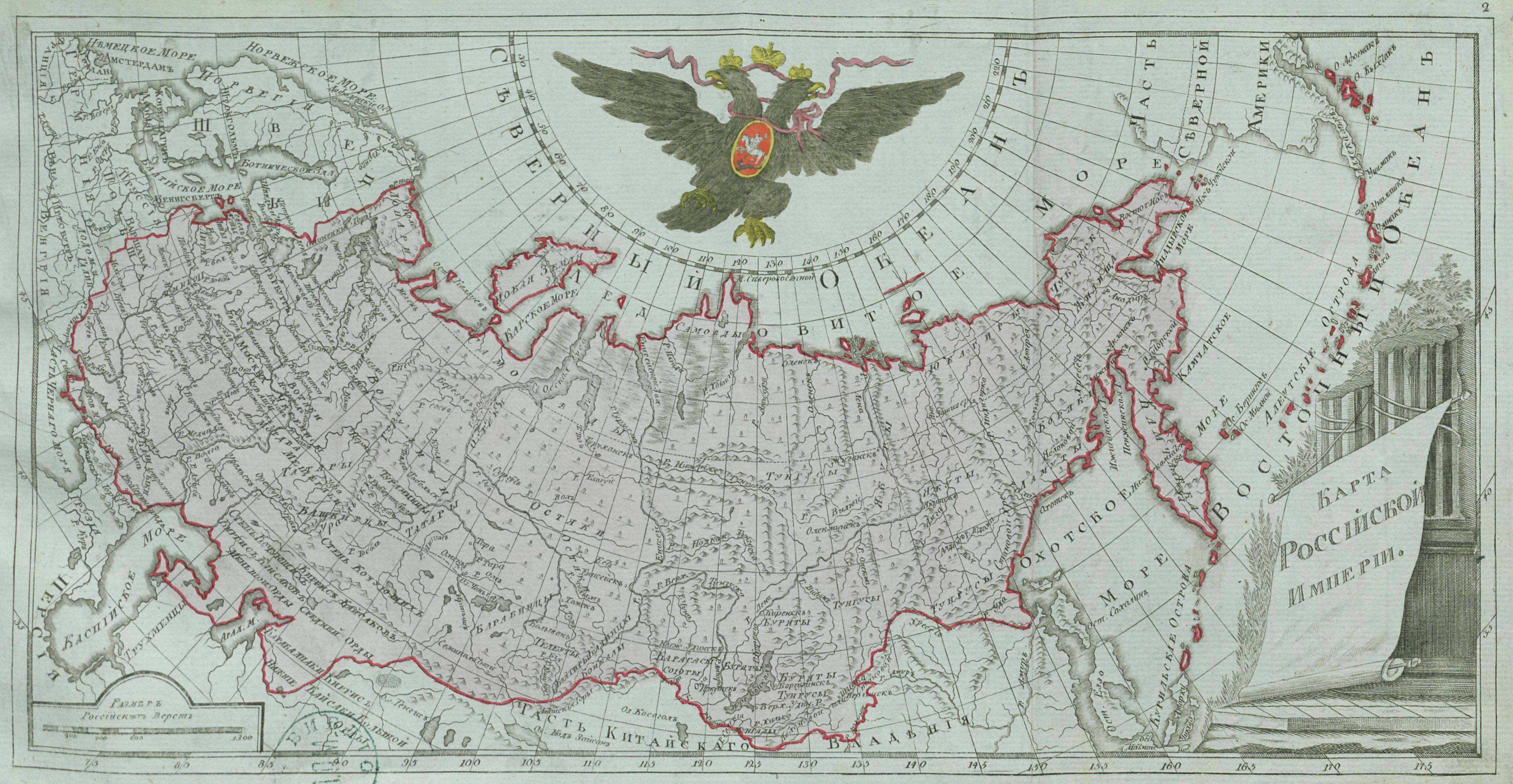 Small atlas of the Russian Empire (1792). Map of the Russian Empire (map 1).